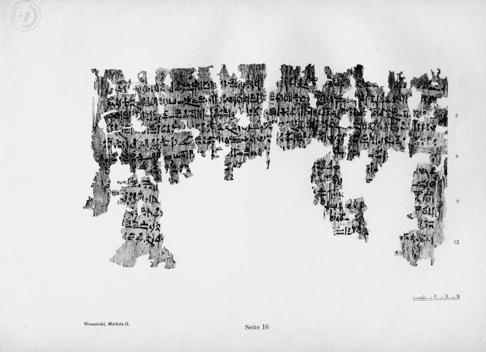 Plate 16 of London Medical Papyrus